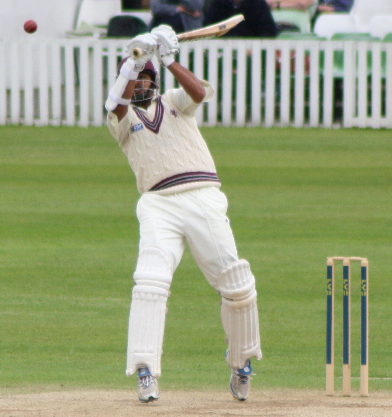 Murali Kartik plays an unorthodox shot while batting as part of the tail for Somerset against Yorkshire in a County Championship match.